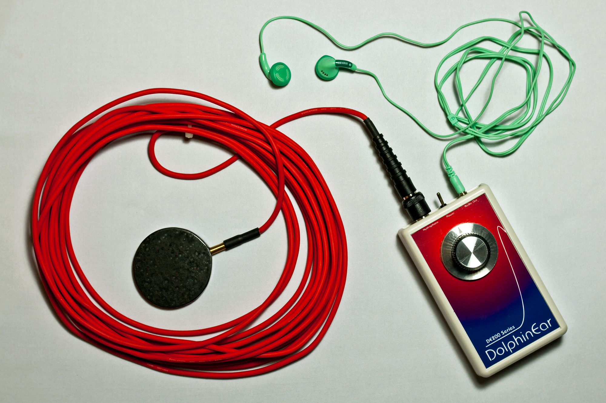 A simple hydrophone (= "underwater microphone"), constructed for listening to underwater sounds from whales, dolphins etc. (But also usable e.g. to identify mating calls of spadefoot toads, Pelobates fuscus, in a pond.) Technical specifications: frequency range: 7 Hz – 22,000 Hz, transducer type: MPC (Piezo), omnidirectional.